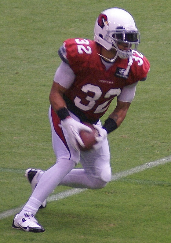 Tyrann Mathieu in 2013 Arizona Cardinals' training camp